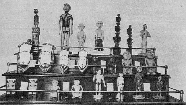 Micronesian souvenirs in 1930s